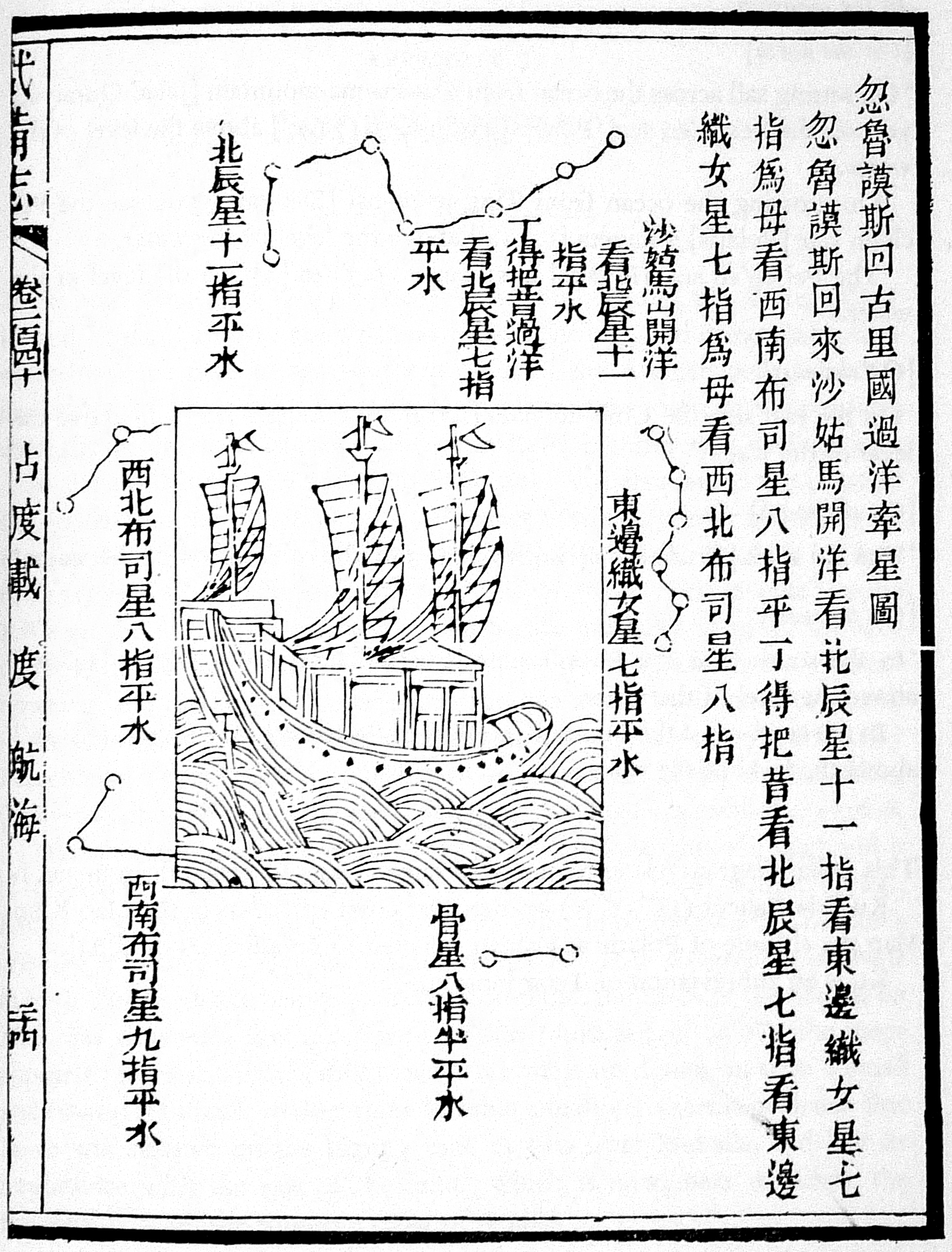 This navigational chart is one of the four stellar diagrams included in the Wubei Zhi, published in circa 1628. It appears in chapter 240, folio 24 r. The chart specifies the guiding stars enroute from Hormuz to Calicut.